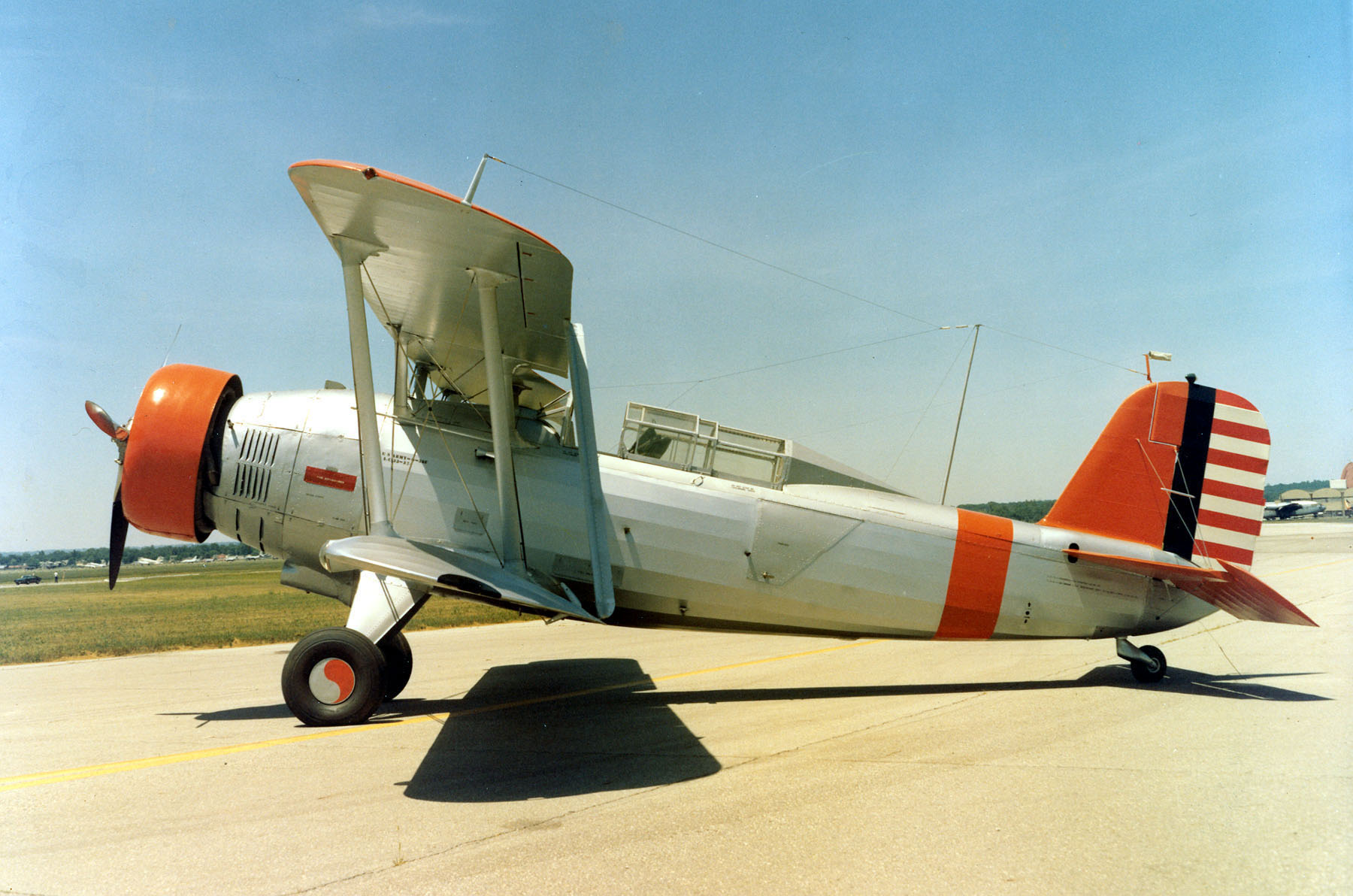 A Douglas O-38F observation plane at the National Museum of the United States Air Force at Dayton, Ohio (USA).